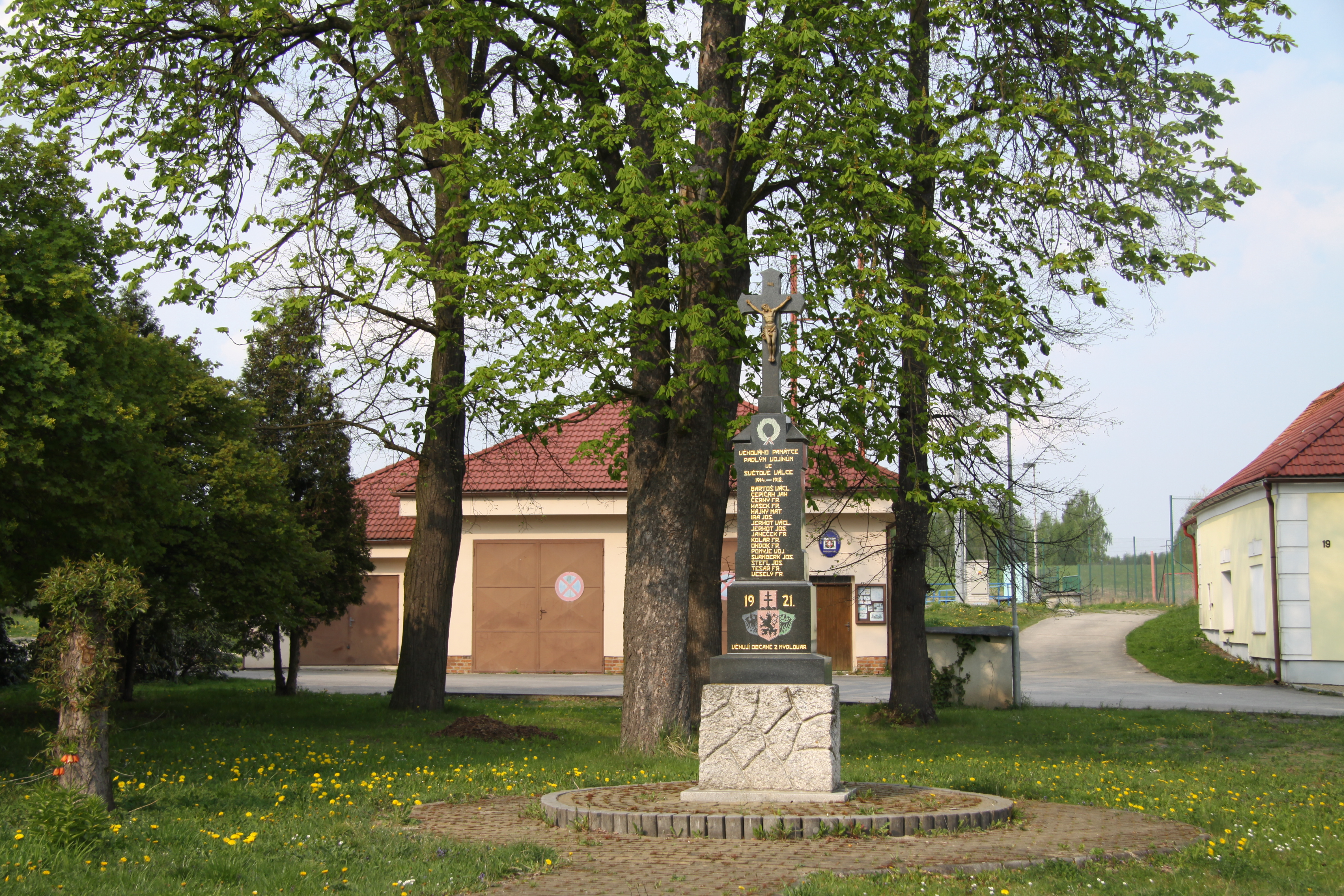 World War I memorial, Mydlovary village, České Budějovice District, Czech Republic